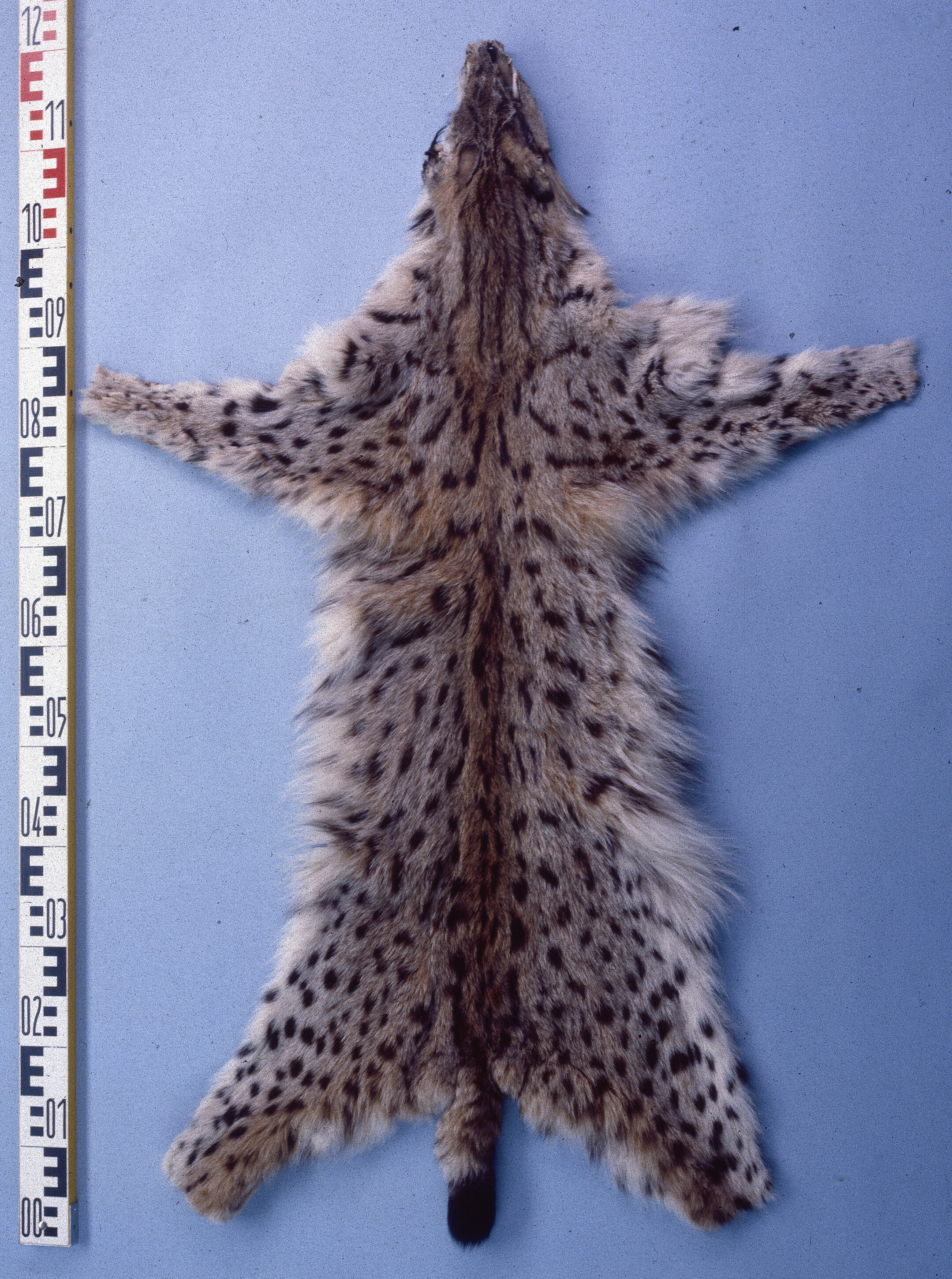 Spanish lynx skin (Lynx pardinus). Fur skin collection, Bundes-Pelzfachschule, Frankfurt/Main, Germany